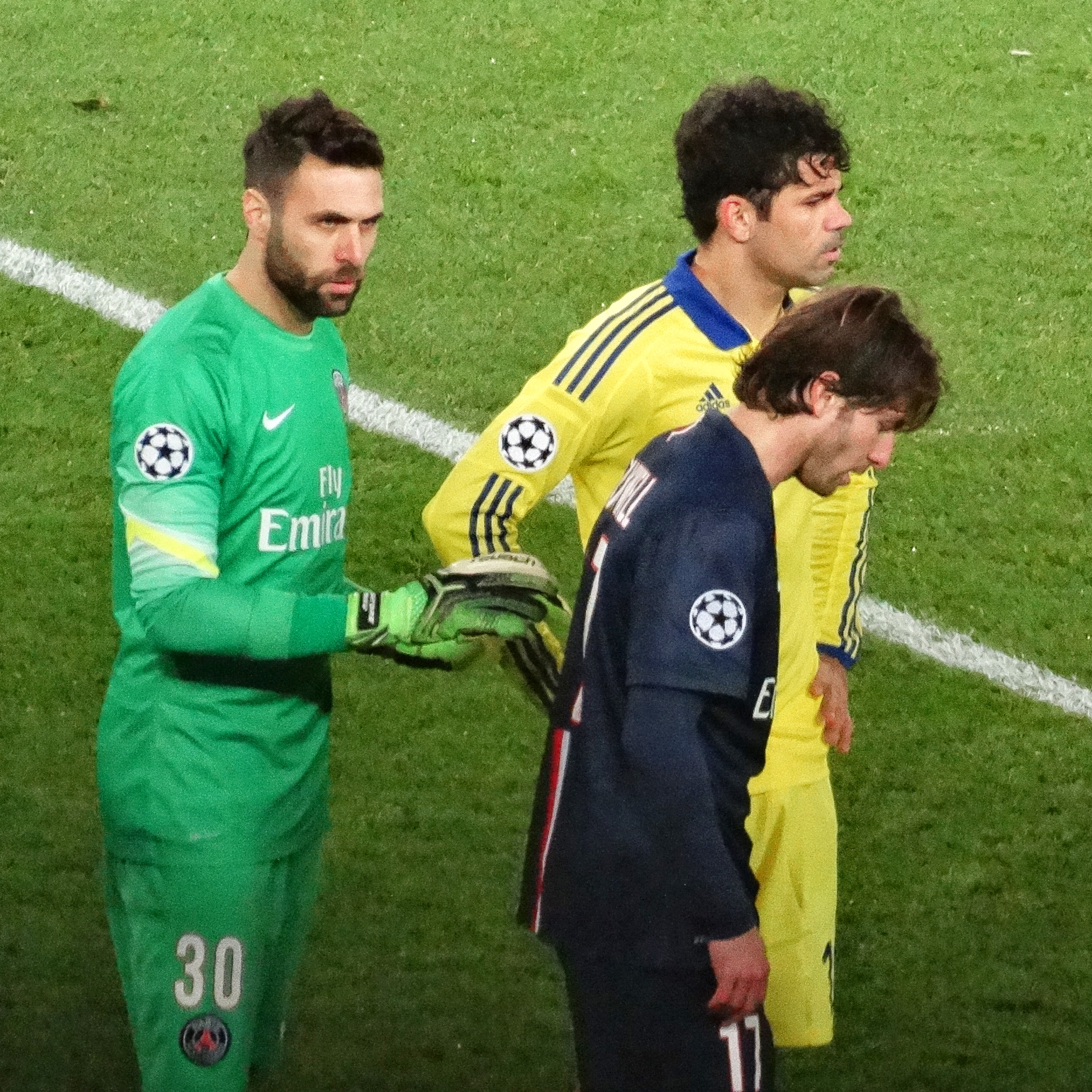 PSG 1 Chelsea 1 Champions League round of 16 1st leg